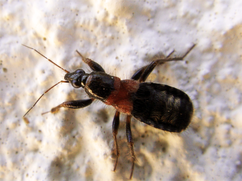 Prostemma albimacula in Ansião, Leiria, Portugal